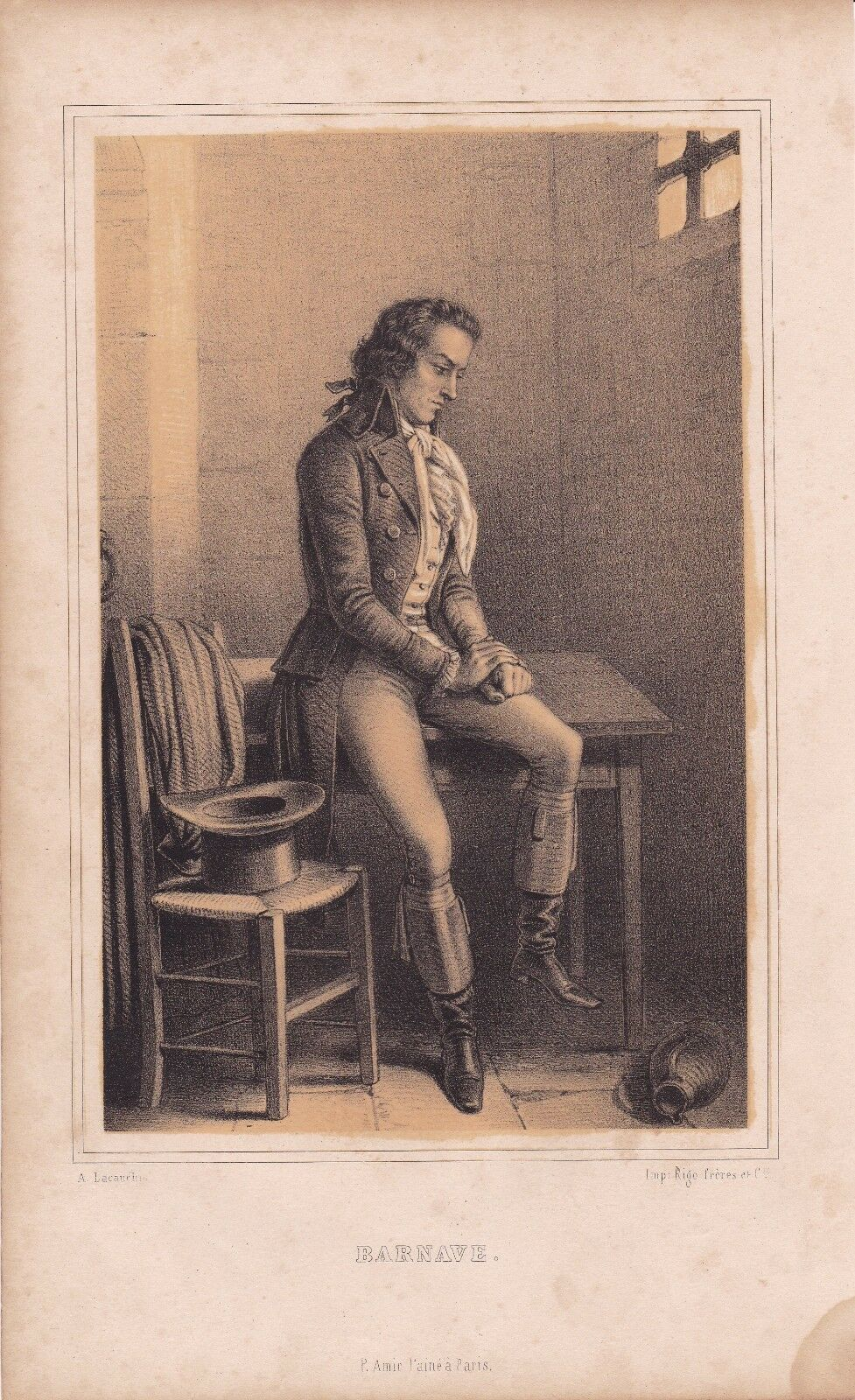 Antoine Barnave jailed.